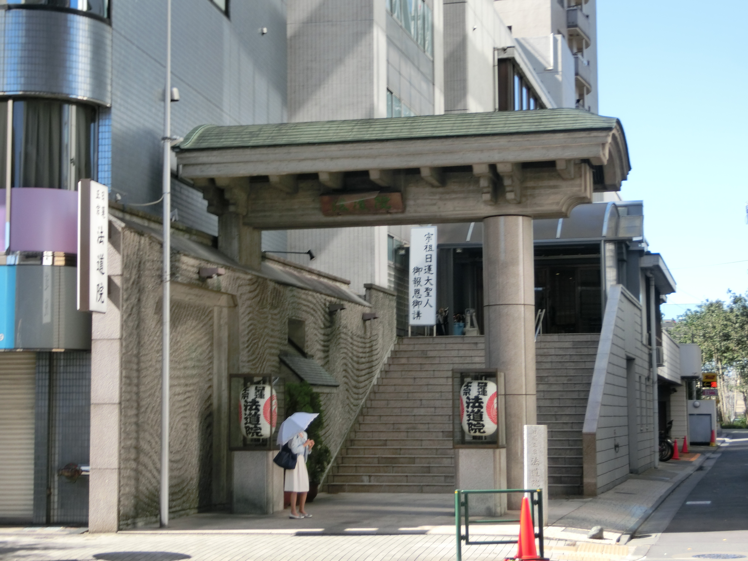 Hodo-in (Toshima, Tokyo)